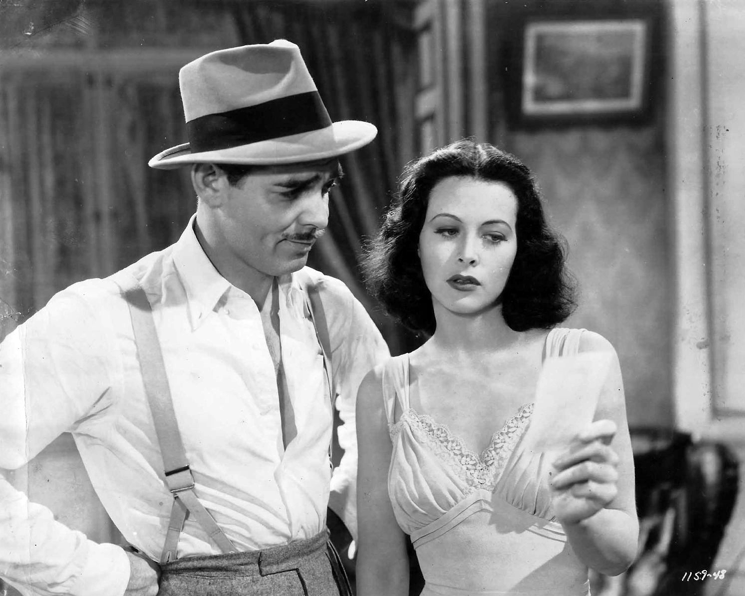 Clark Gable and Hedy Lamarr publicity photo for the film Comrade X, 1940